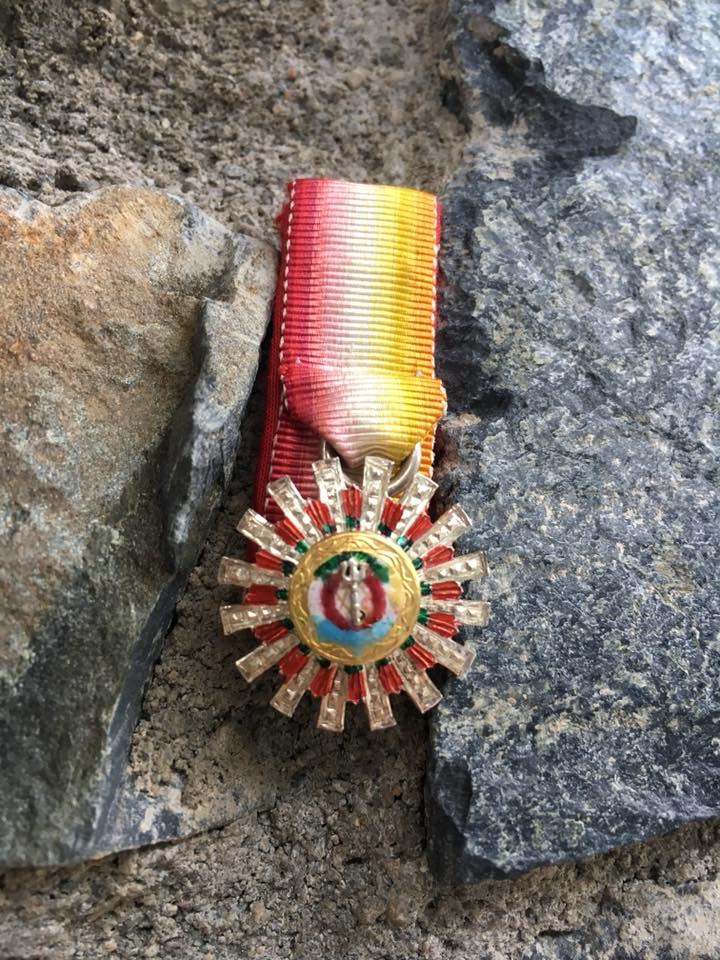 Miniature of the First class of the Order of the Star of Nepal, Kingdom of Nepal. AEA Collections